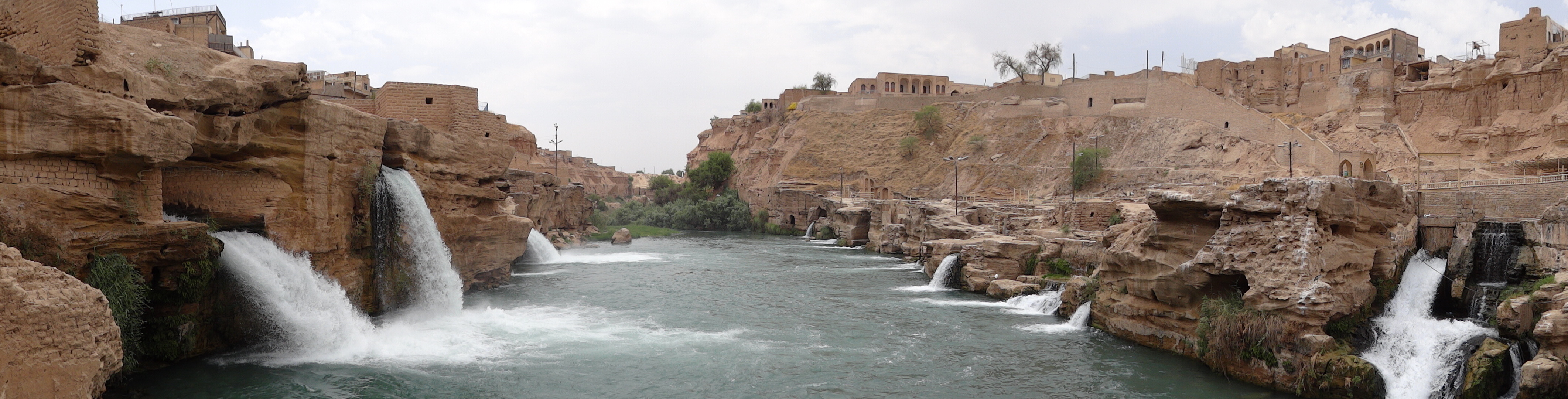 Panorama of Watermill Array - Shushtar - Southwestern Iran